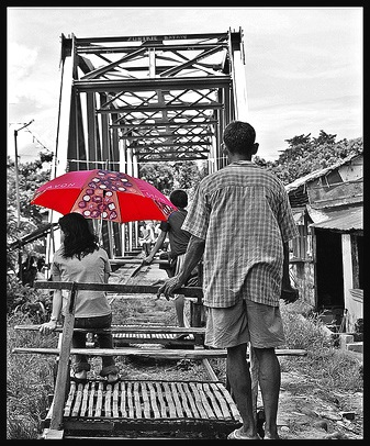 Lucena. Bamboo trolley of Philippines.